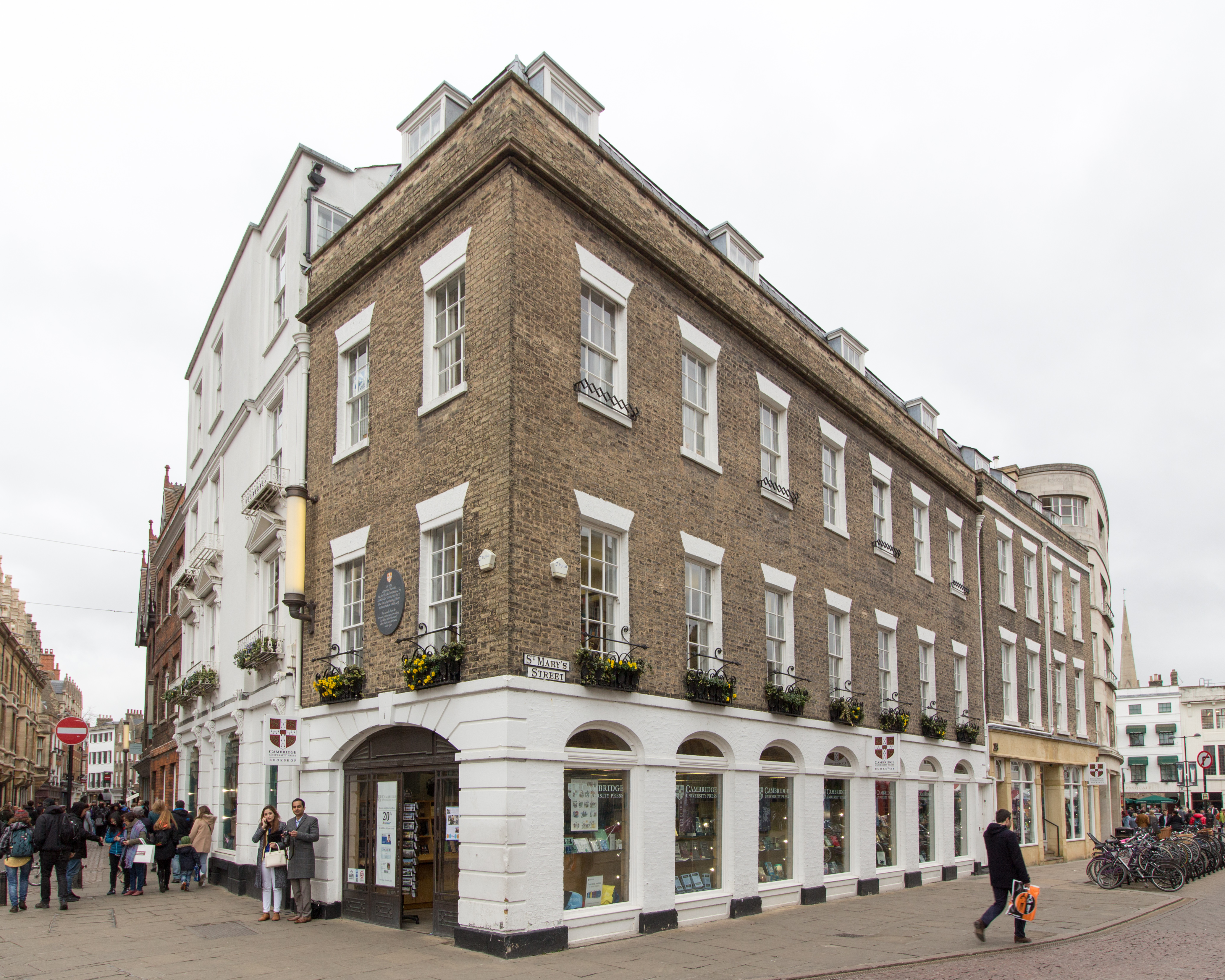 Cambridge University Press shop, on corner of Trinity Street